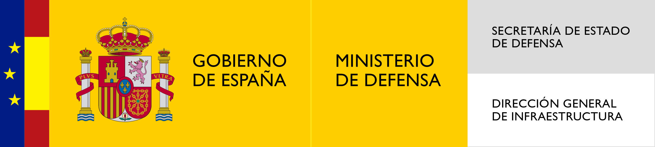 Logo of the Directorate-General for Infrastructure of the Ministry of Defence of Spain.